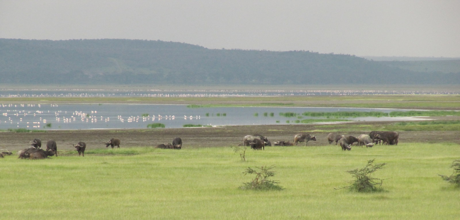 African Buffalo and Lesser Flamingos, Lake Nakuru, Kenya